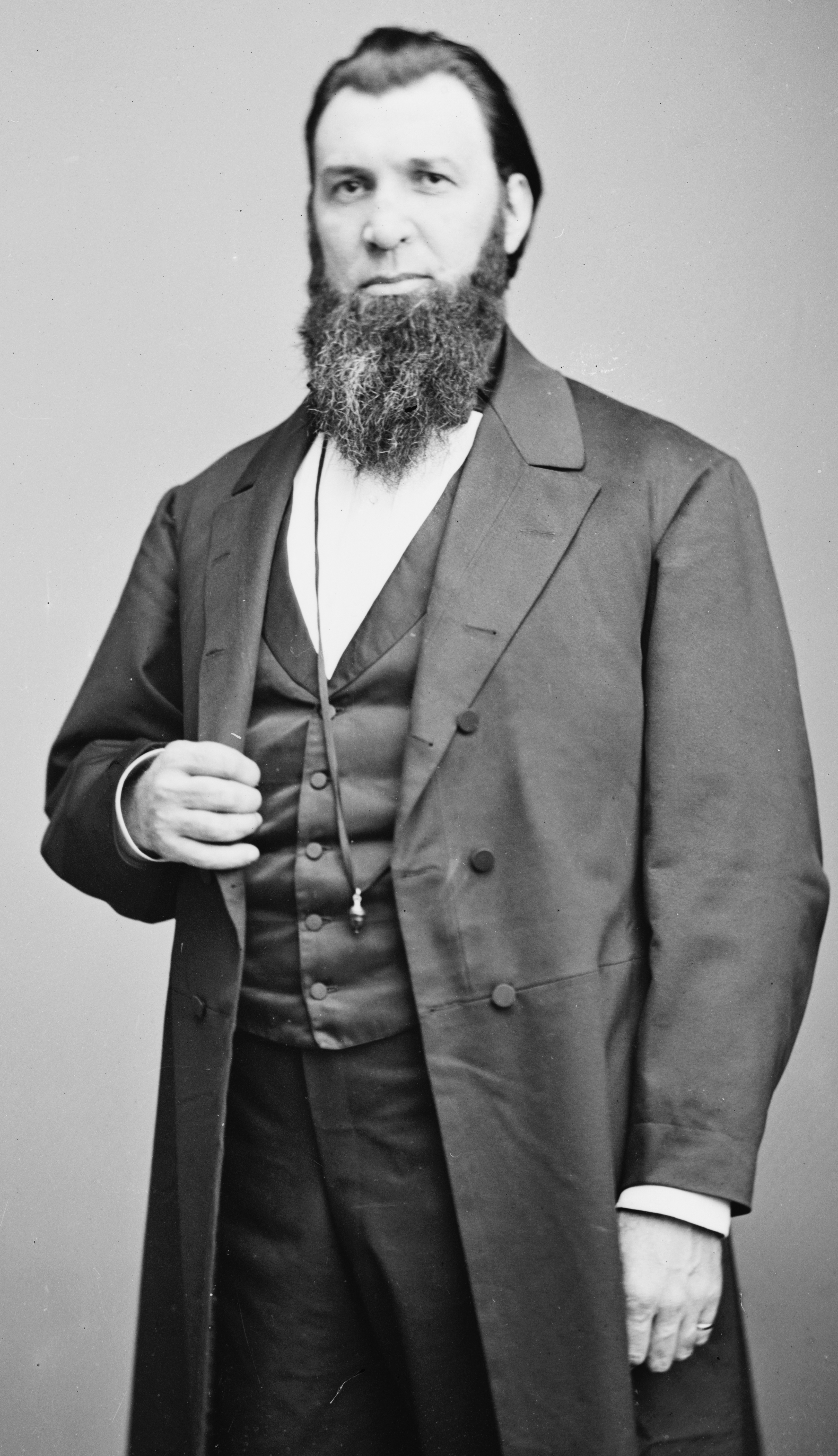 Rep. Abram Wakeman of New York